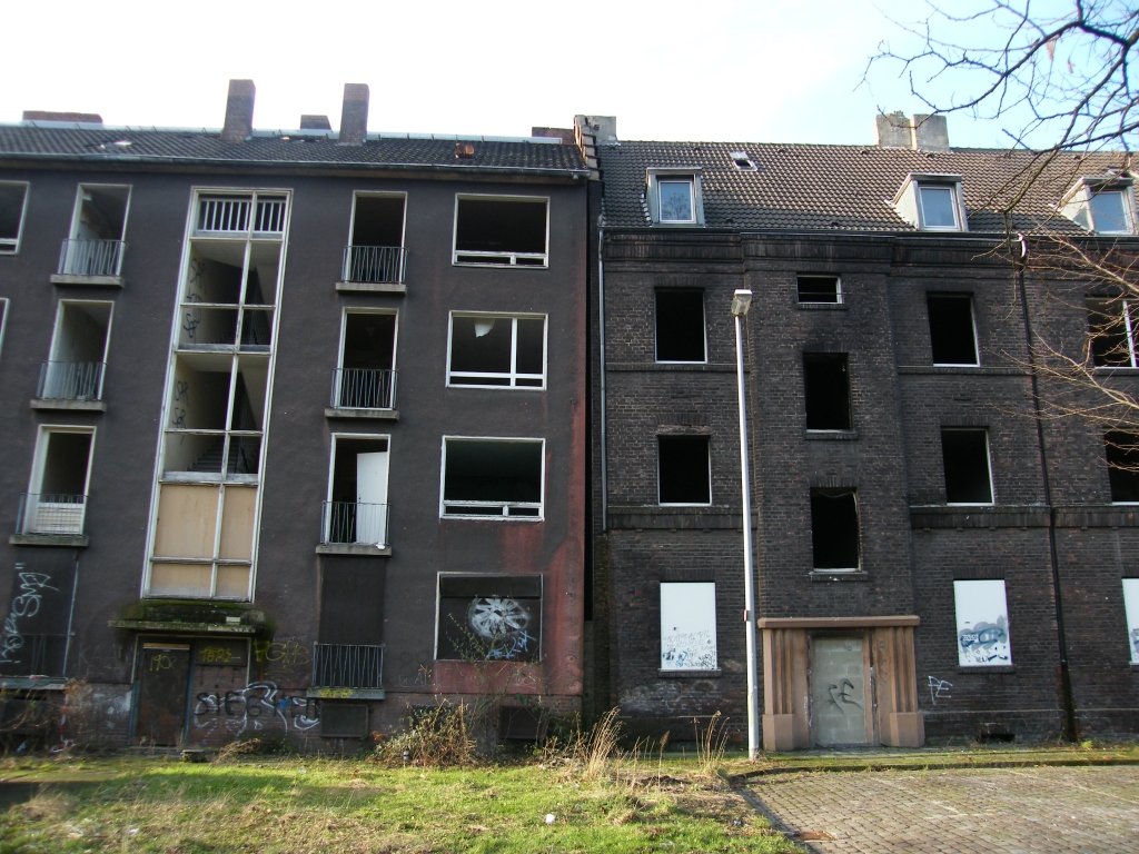 Abandoned residential buildings in Duisburg, Germany